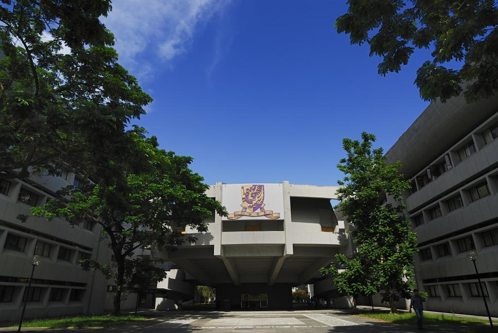 cuhk sign bldg.